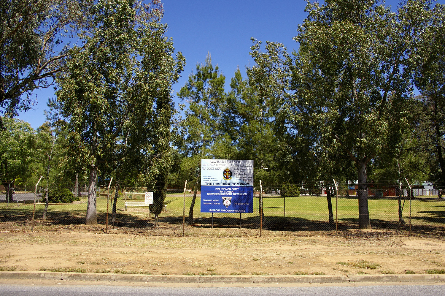 Army Reserve Depot located on the corner of Docker and Dobbs Streets in Wagga Wagga. Units located in the depot are:• A Company 1st/19th Royal New South Wales Regiment• 5th Combat Service Support Battalion (Wagga detachment)• Sydney University Regiment• Australian Army Cadet